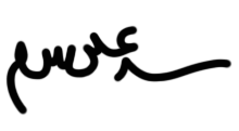 Seyyed Ali Khamenei signature.